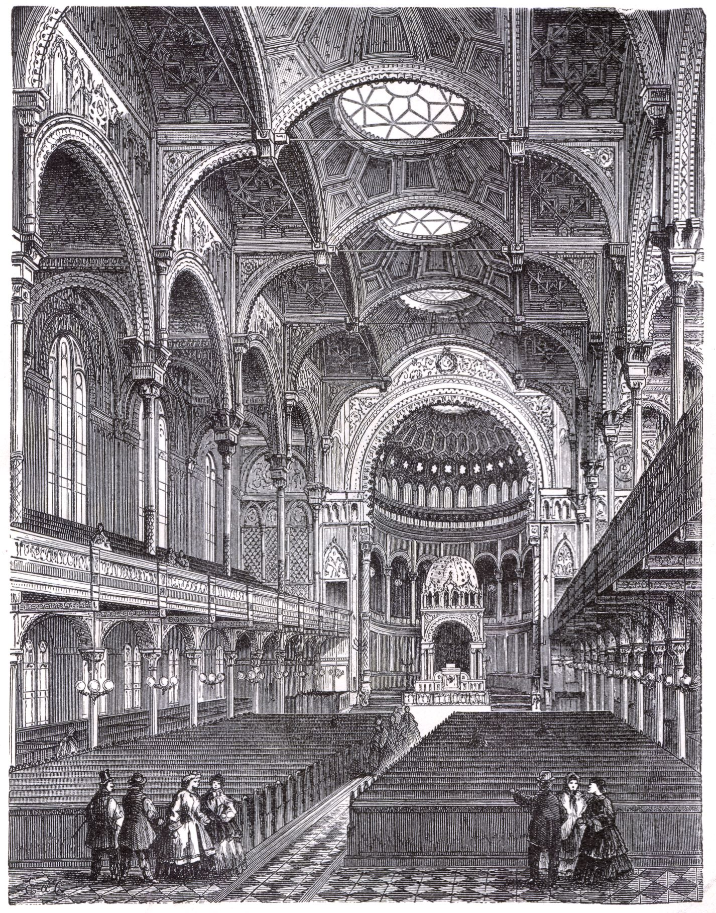 Neue Synagoge Berlin, interior view